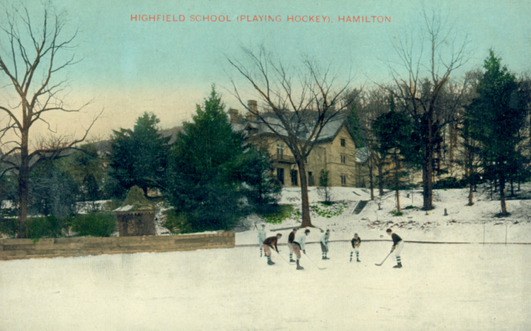 Postcard of an outdoor ice hockey game at Highfield School in Hamilton, Ontario. Founded in 1901 as Highfield School for Boys, this school was the first private residential and day school for boys in the city of Hamilton. It was a prep school for boys planning to enter the Royal Military College of Canada. Now called Hillfield Strathallan College. Card was mailed in Winona Ontario on November 14th 1910 to G B Pattison Esq. Manufacturer's Life Insurance Company, Toronto ; message reads "Would it be convenient for you if your sister arrived on Thursday and stayed till Friday afternoon Nov 18th? If not, why say so. Family all well and frisky. Yours etc. H Pattison"